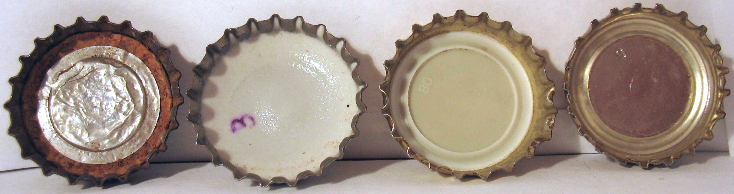 Photography contains cap with cork and gaskets.